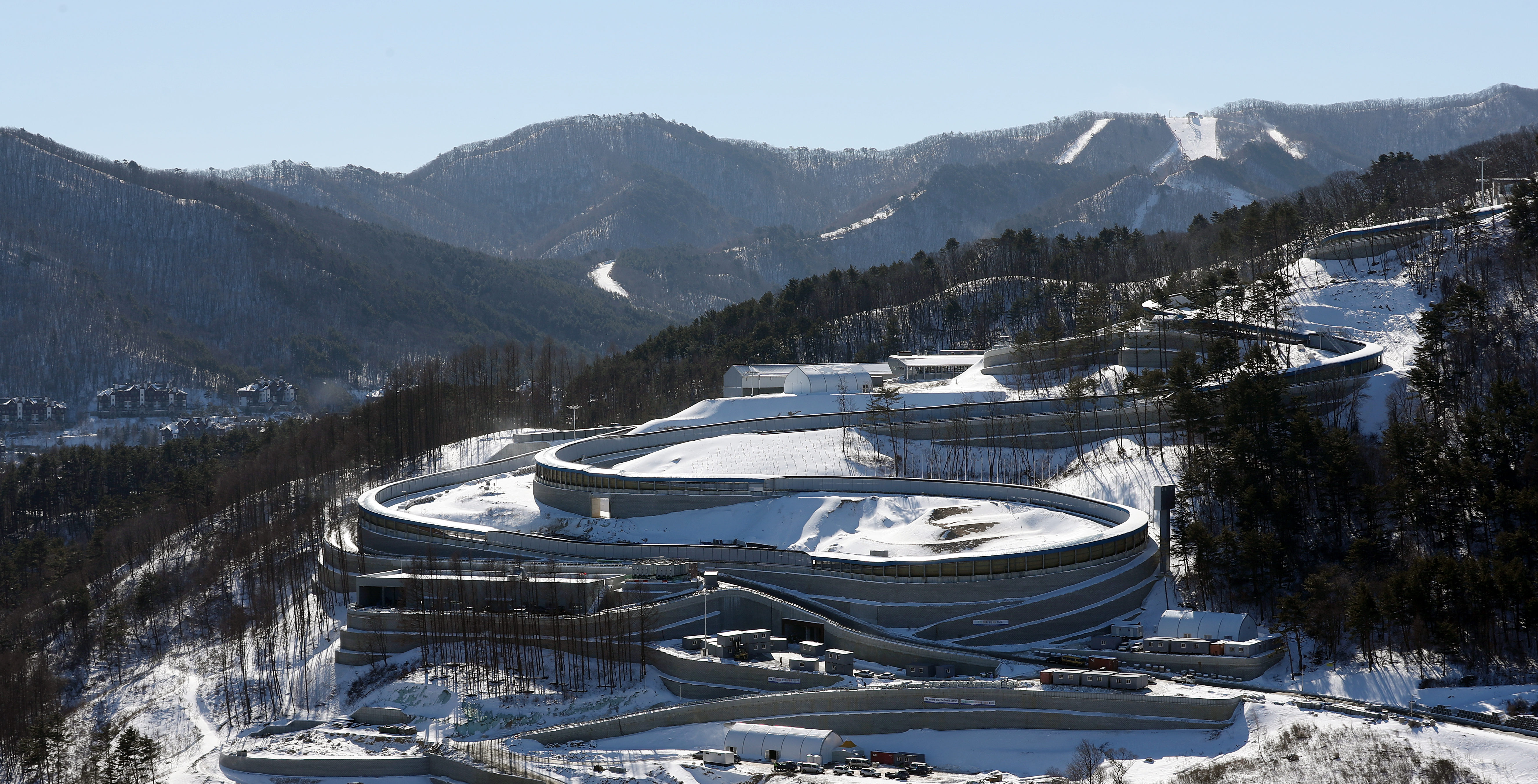 PyeongChang Alpensia Sliding Center February 2, 2017 Alpensia, Pyeongchang-gun, Gangwon-do Ministry of Culture, Sports and Tourism Korean Culture and Information Service ( Official Photographer : Jeon Han This official Republic of Korea photograph is being made available only for publication by news organizations and/or for personal printing by the subject(s) of the photograph. The photograph may not be manipulated in any way. Also, it may not be used in any type of commercial, advertisement, product or promotion that in any way suggests approval or endorsement from the government of the Republic of Korea. 알펜시아 슬라이딩 센터 2017-02-02 평창군 문화체육관광부 해외문화홍보원 코리아넷 전한